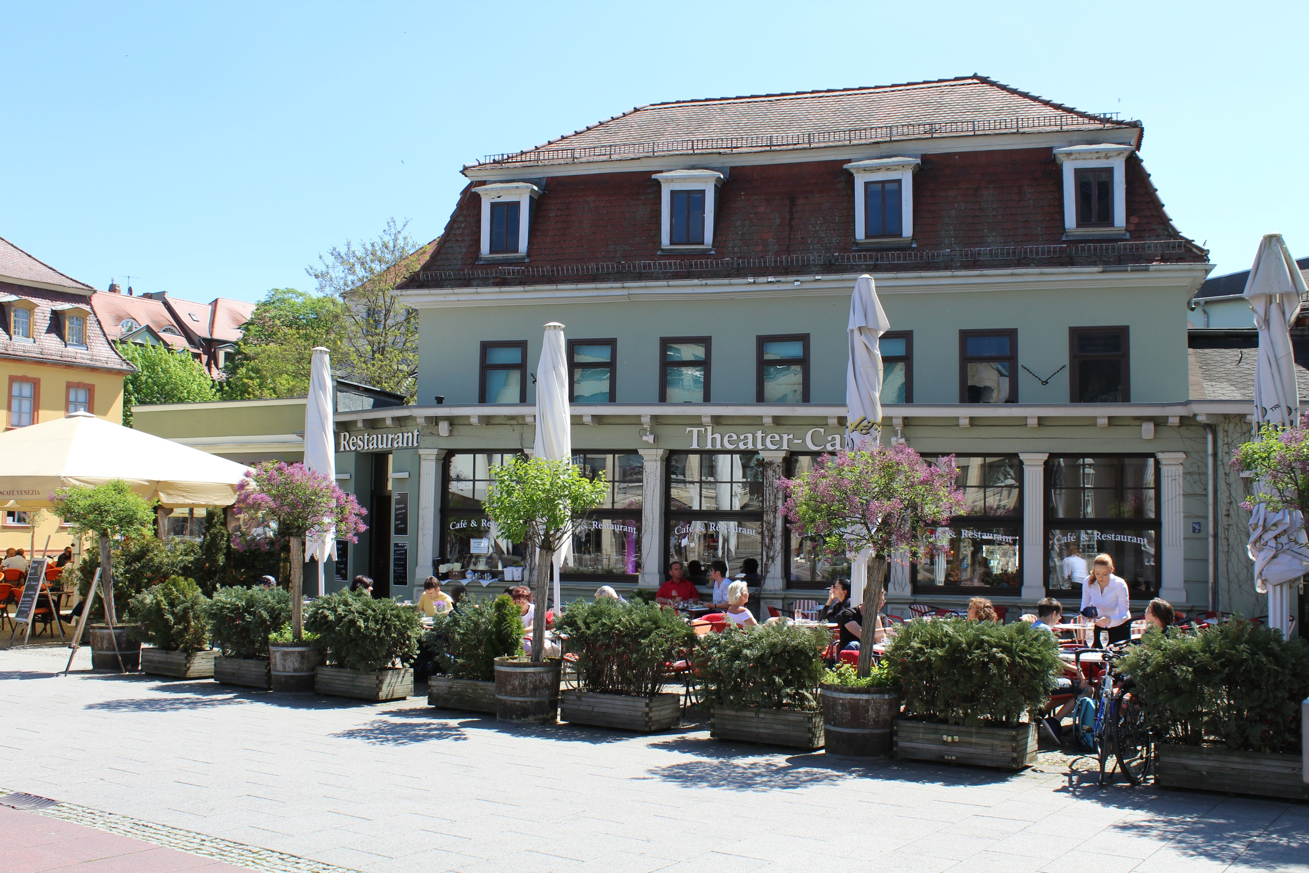 Weimar, the Theatercafé